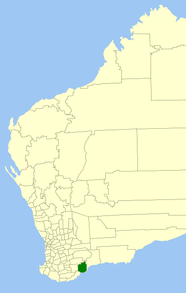 Location of the Local Government Area in Western Australia